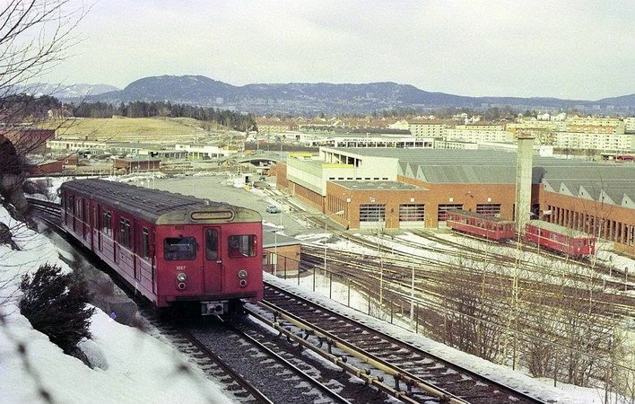 T1 train 1047 on Lambertseter Line of the Oslo Metro. Ryen Depot in the background.